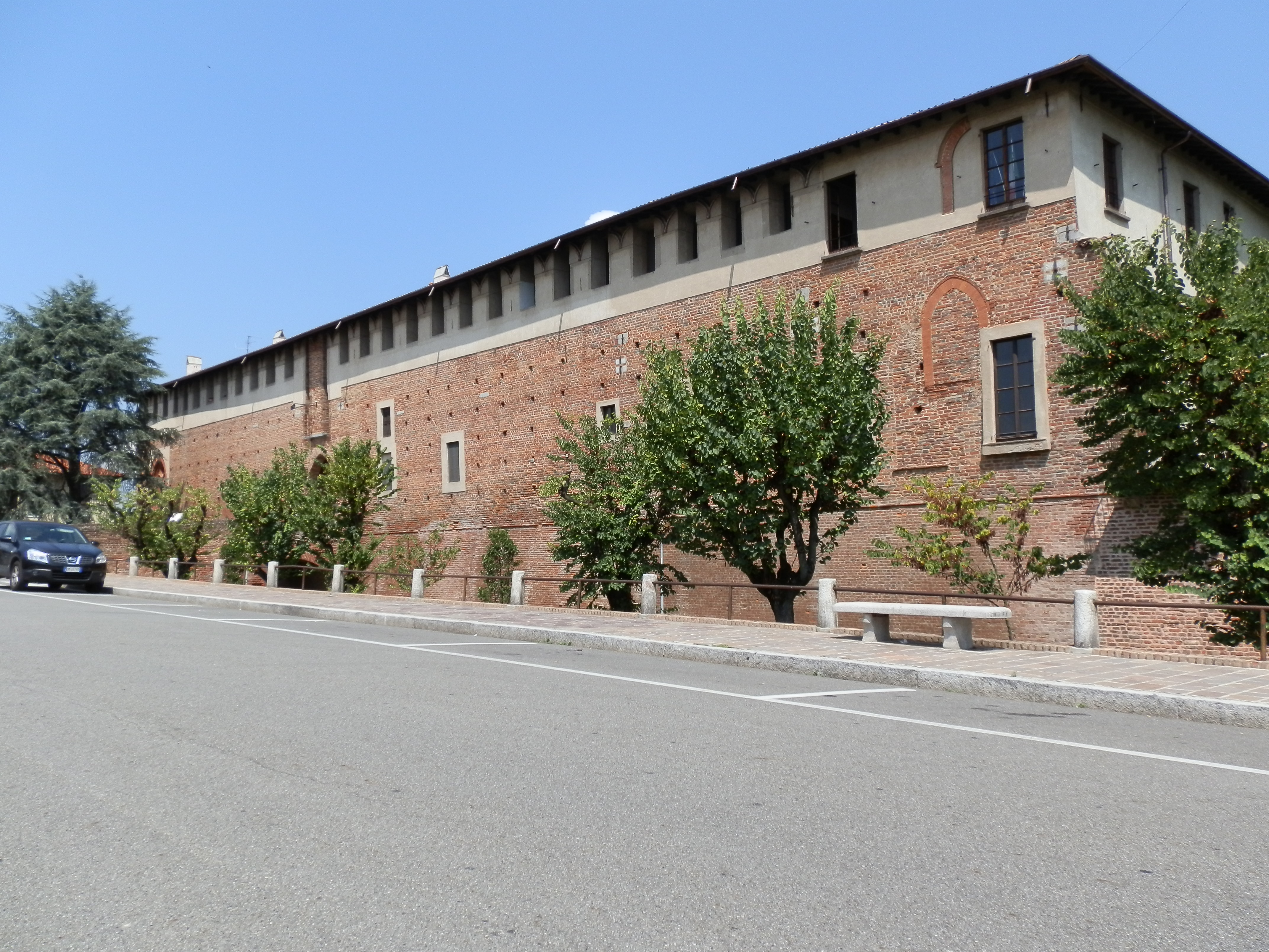 Detail of the castle of Bereguardo